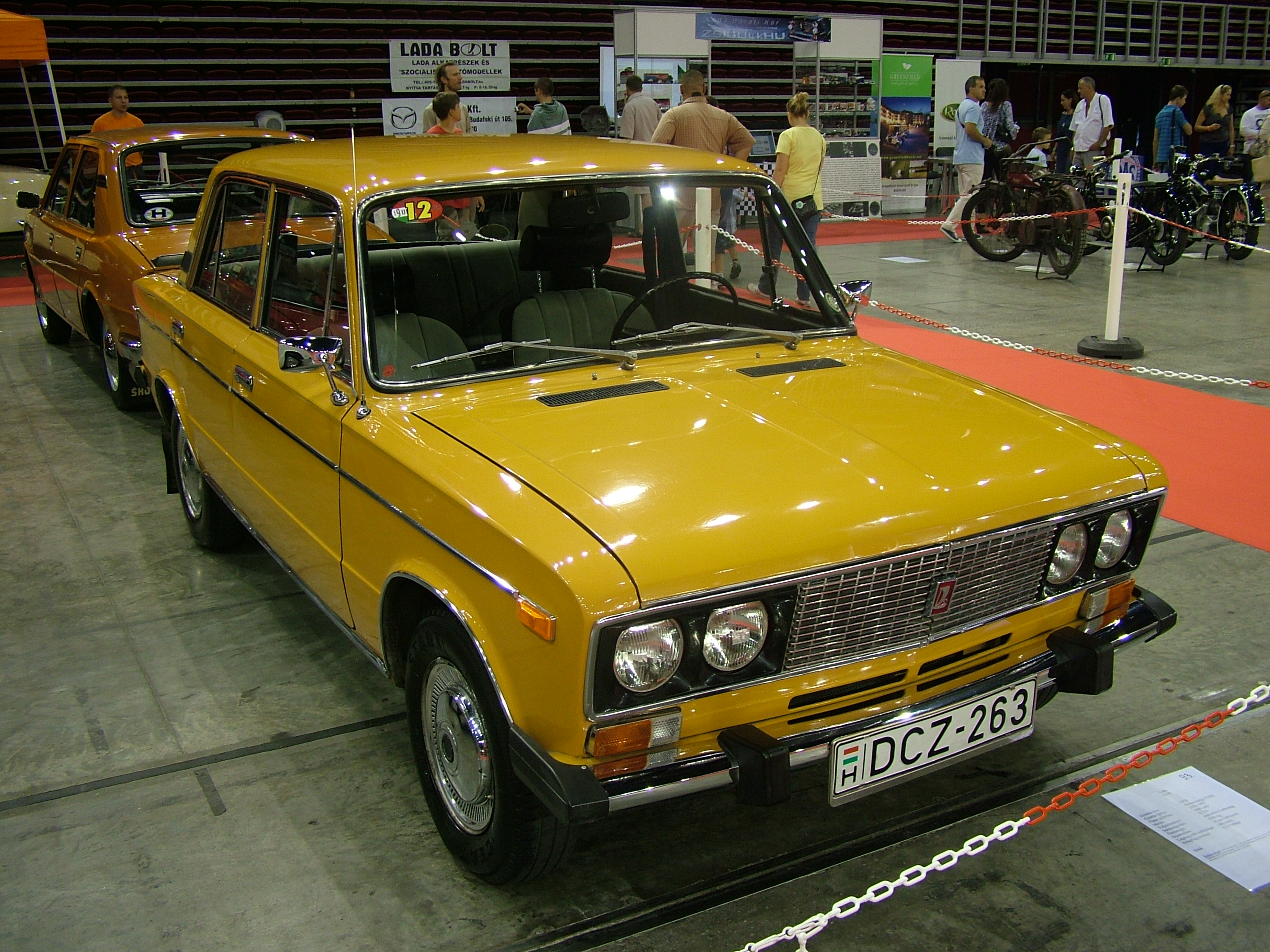 Lada 1600, produced in 1978, at the I. International Oldtimer and Youngtimer Festival, Budapest, 2011.